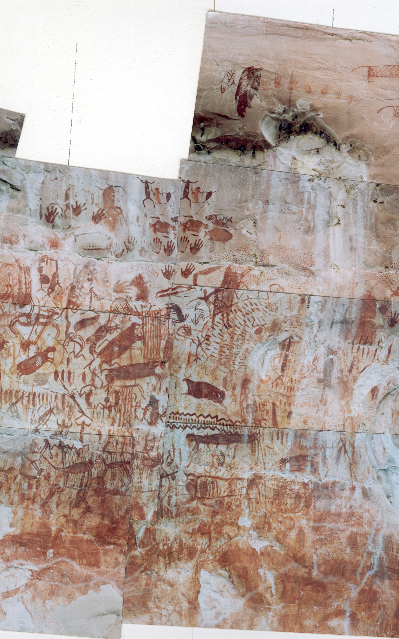 Petroglyphs in the Parque Nacional Natural Chiribiquete